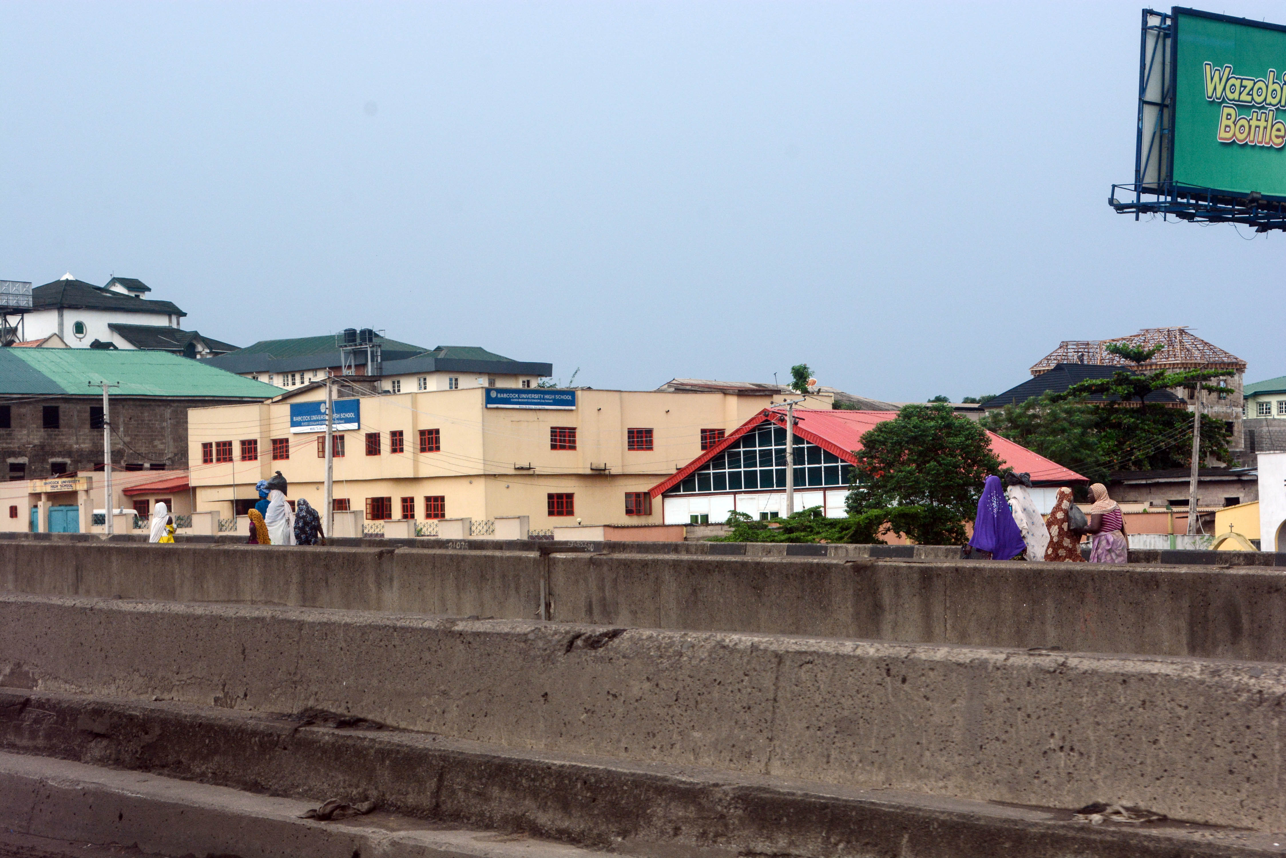 Lagos ibadan express way